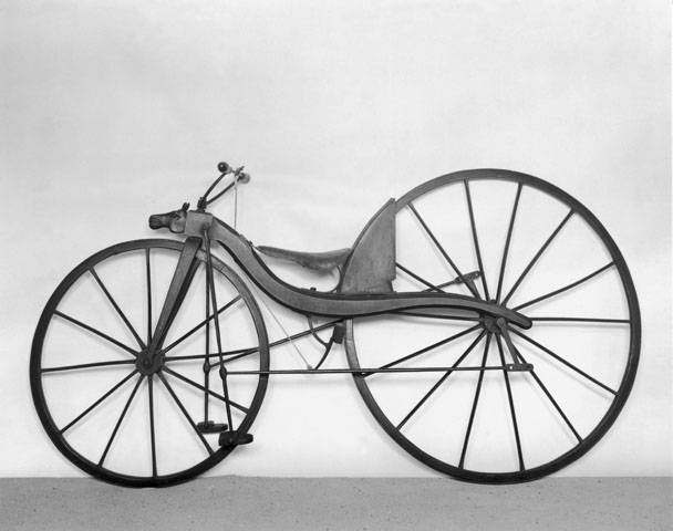 A (probably later imitation) MacMillan bicycle, probably made c.1860, now in the collection of the Science Museum (London) as copied from their ObjectWiki.